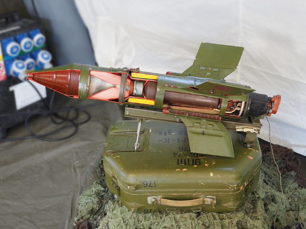 Cutaway of a soviet ATGM 9M14 Malyutka on launching platform 9P111, NATO Days, Ostrava 2019